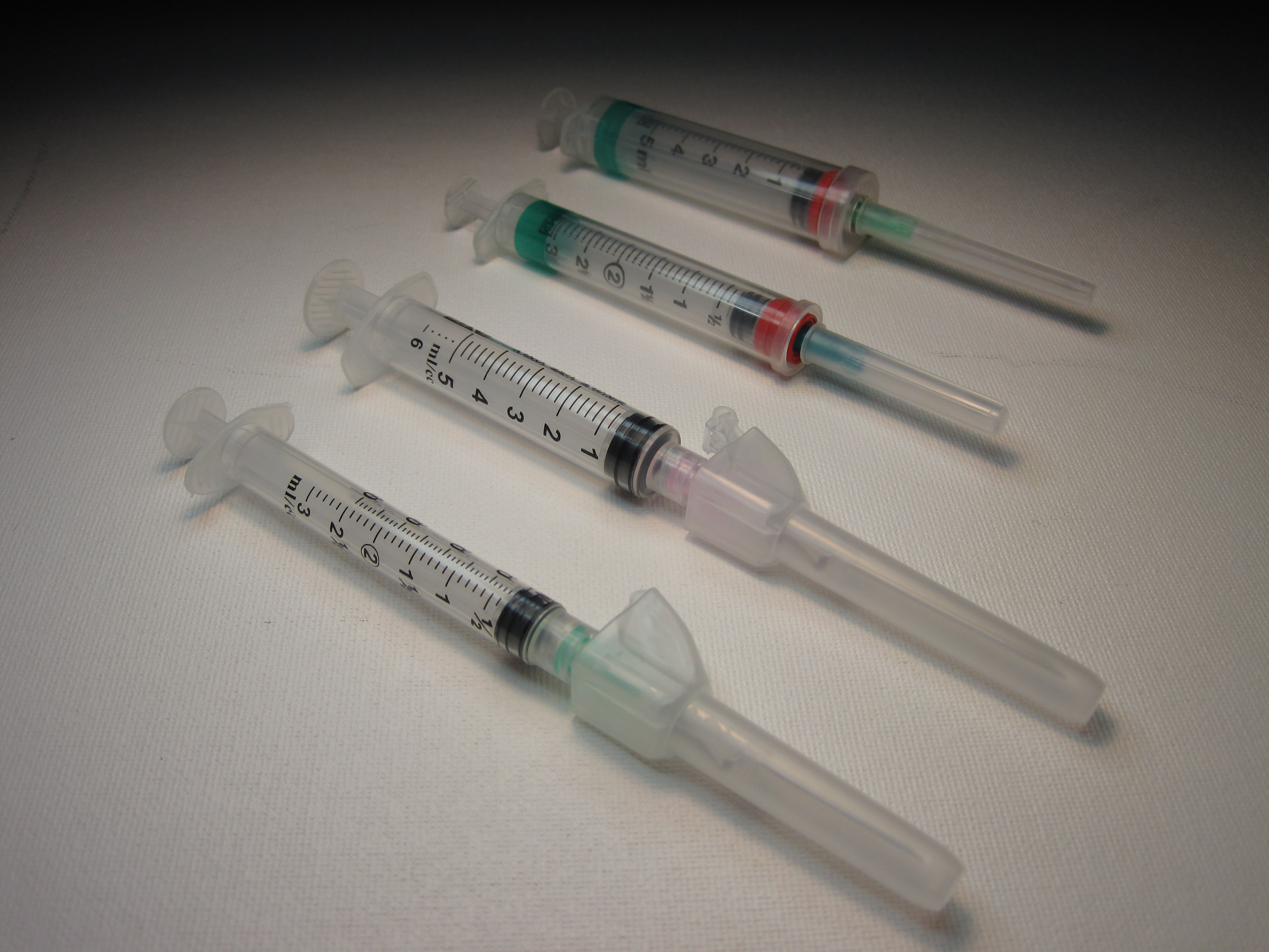 Several syringes of varied volumes and design, with hypodermic needles attached.